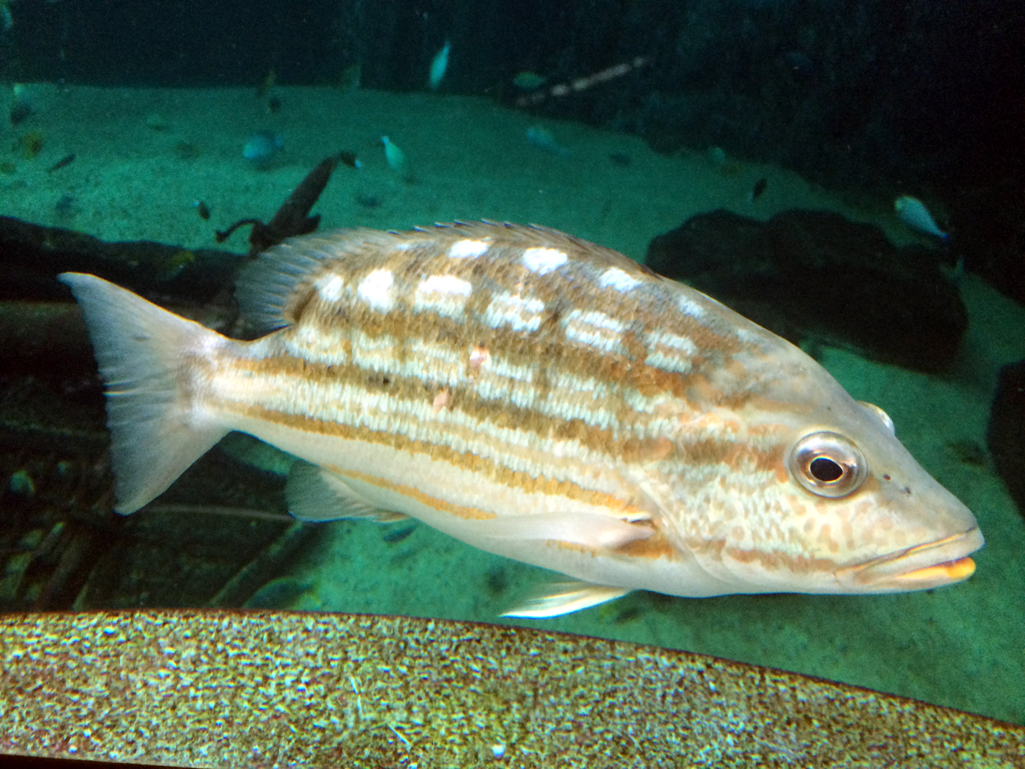 Checkered snapper (Lutjanus decussatus) in Hakone-en Aquarium, Japan.